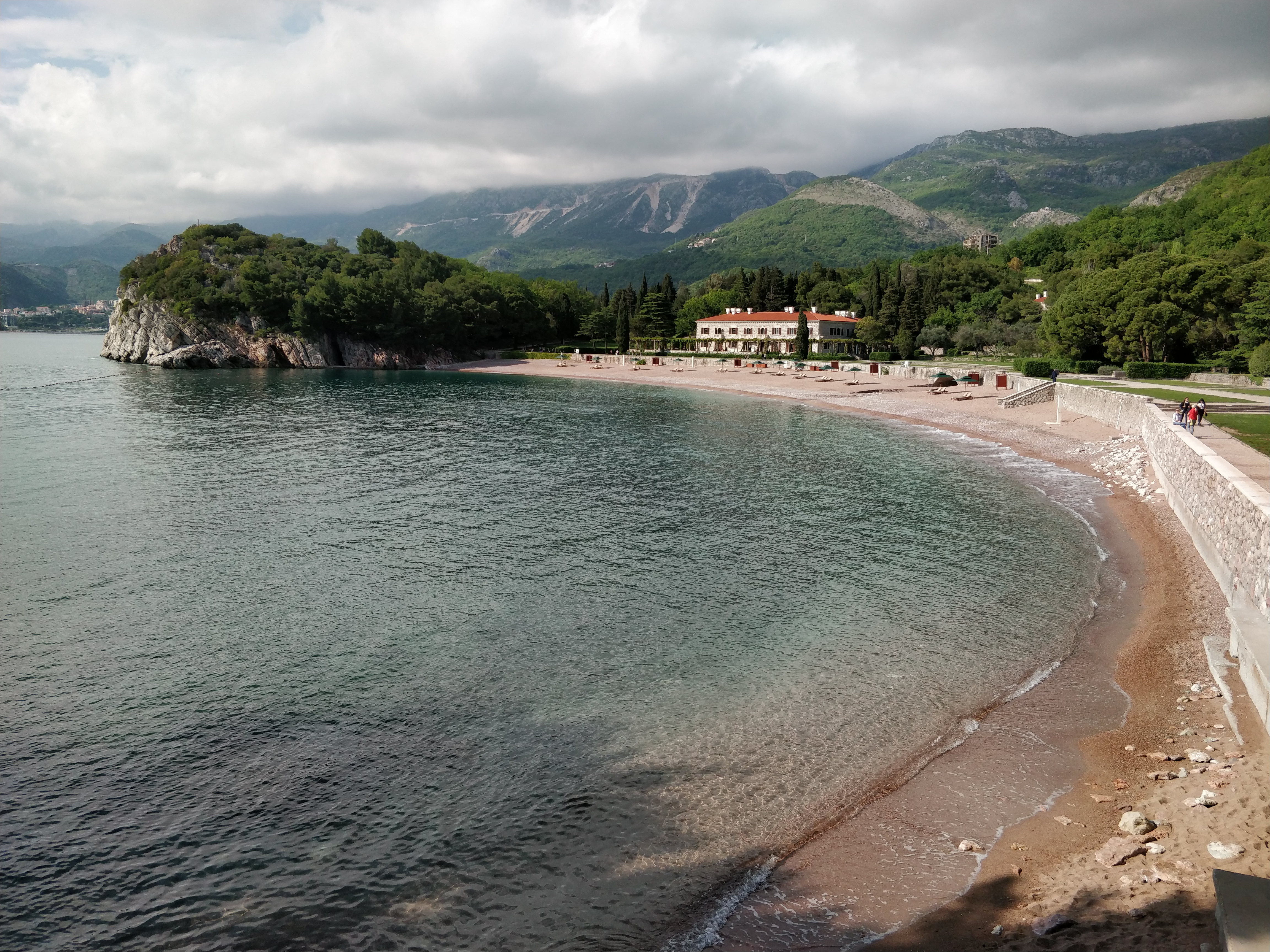 Villa Milocer of Aman Sveti Stefan hotel